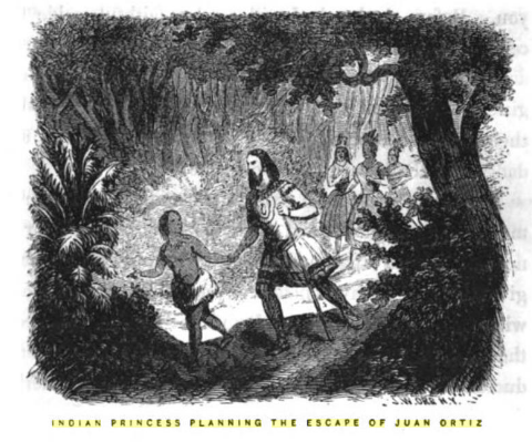 This is an artist's romanticized depiction of Juan Ortiz escaping his intended sacrifice aided by a daughter of the chief who was planning to sacrifice him.